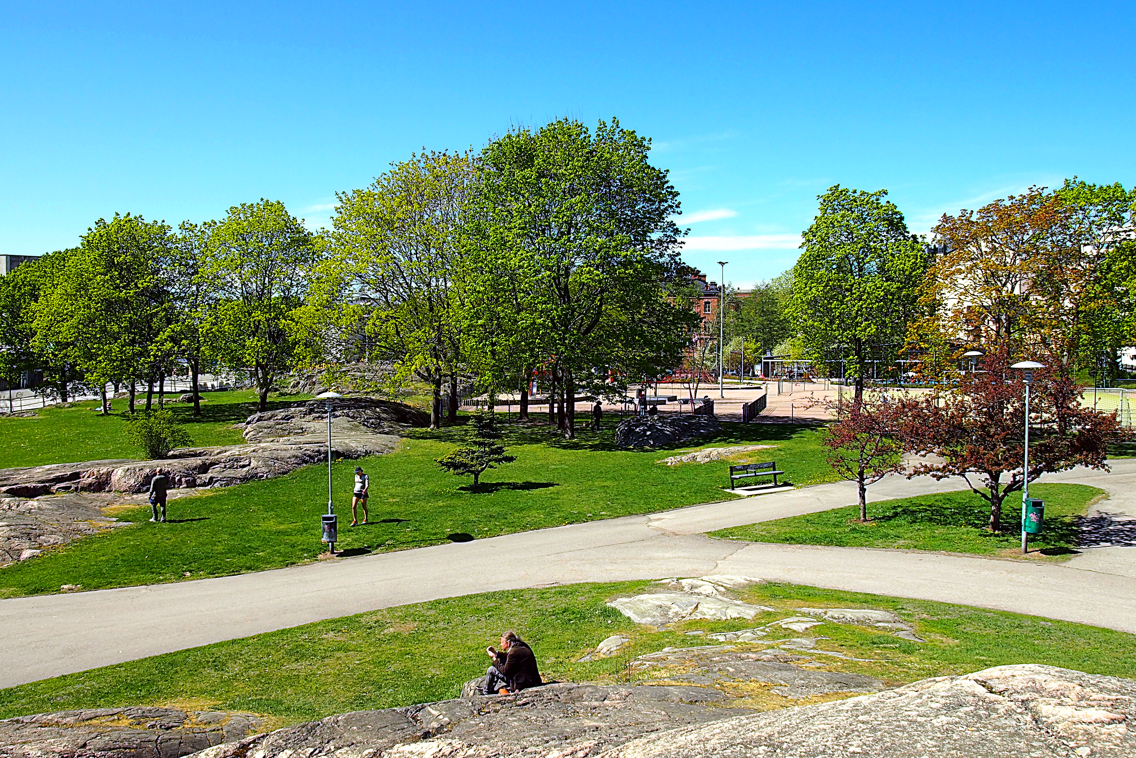 The park Ilolanpuisto, Kallio, Helsinki, Finland